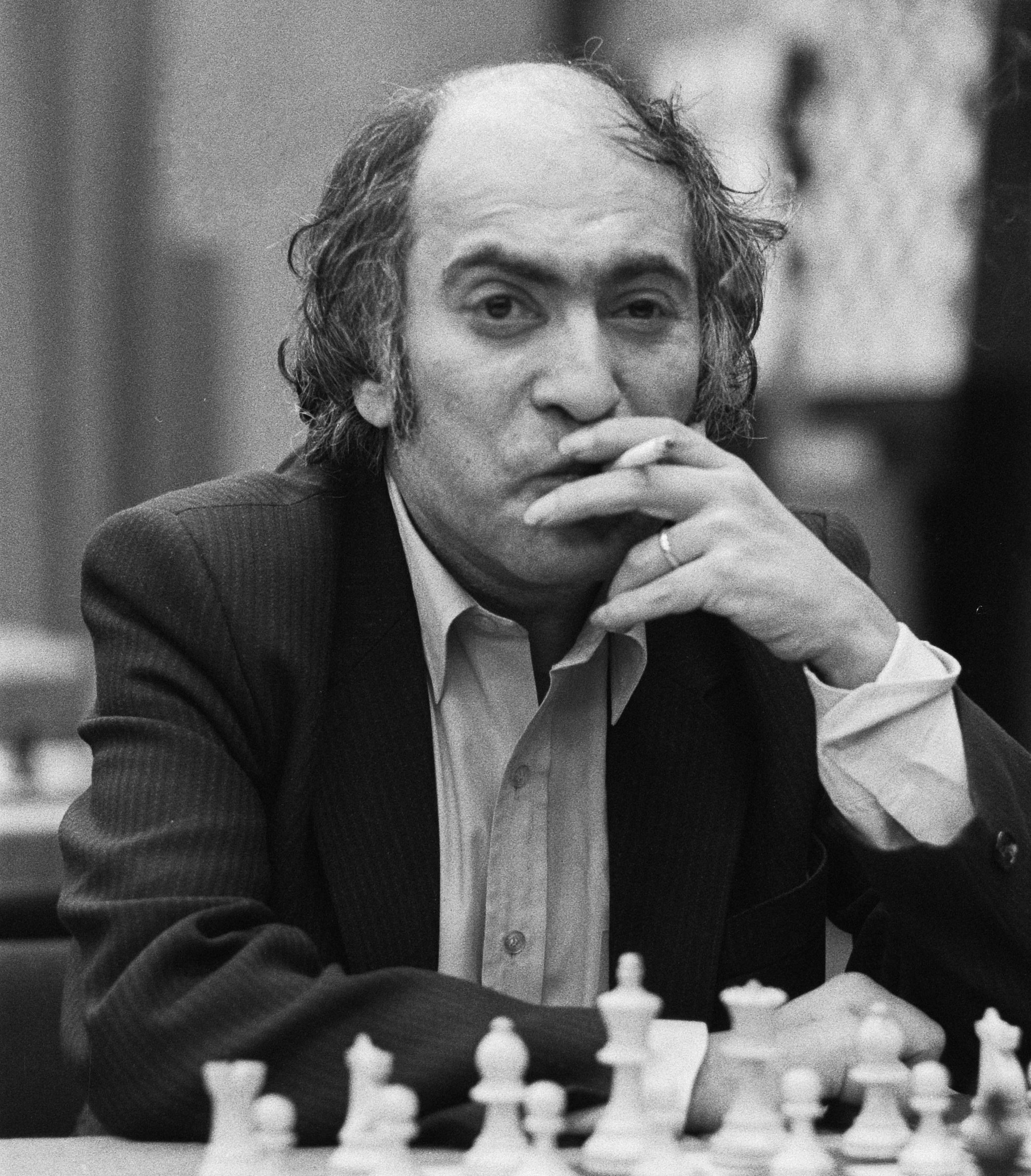 Hoogovens Schaaktoernooi vierde ronde; Tal, USSR